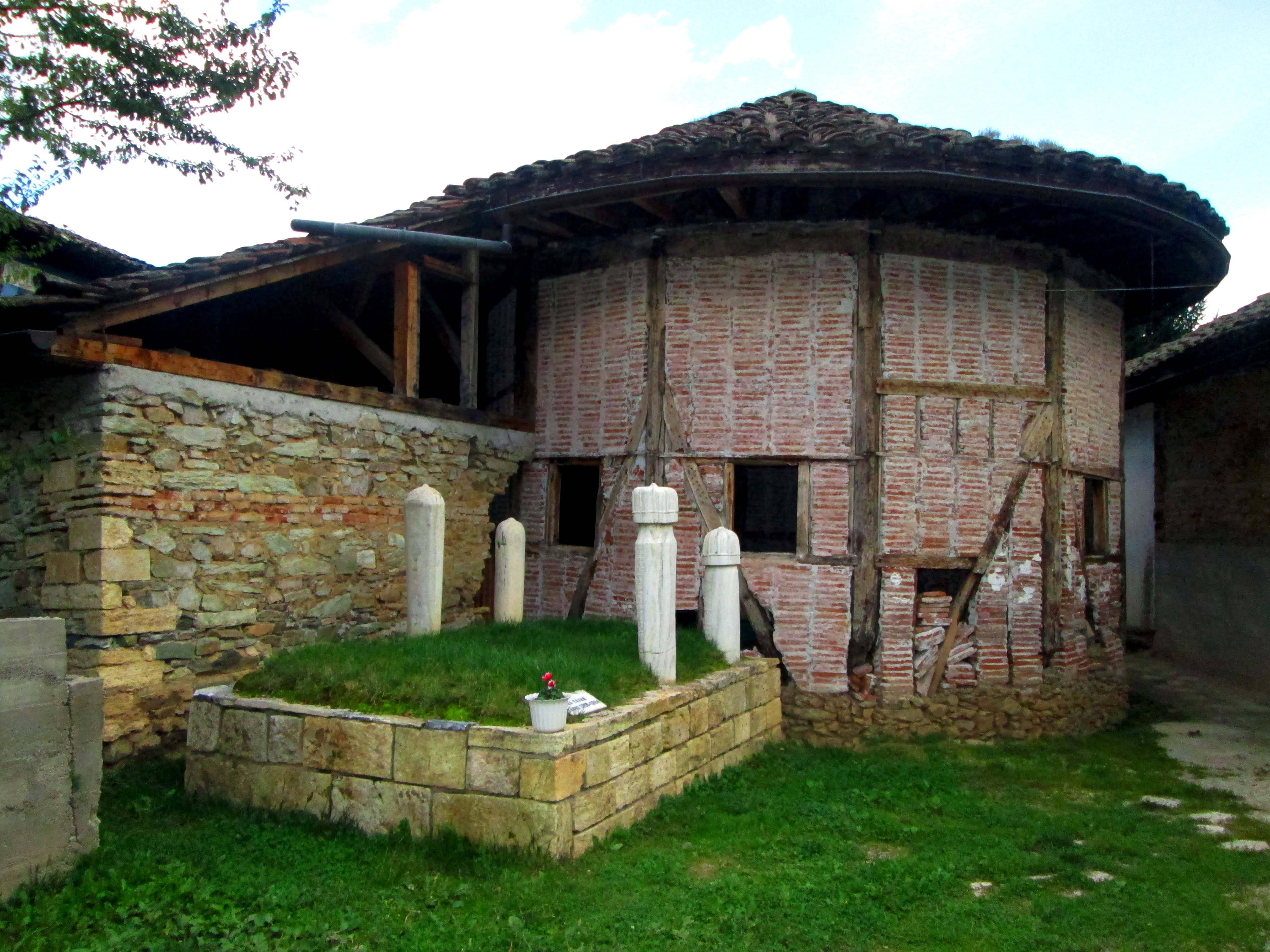 Other graves of Baba or heads of the monastery as the father today dervish Abdul Mutalib Bekiri who today is a major Bektashian dervish who takes care of the Arabati Baba Teḱe